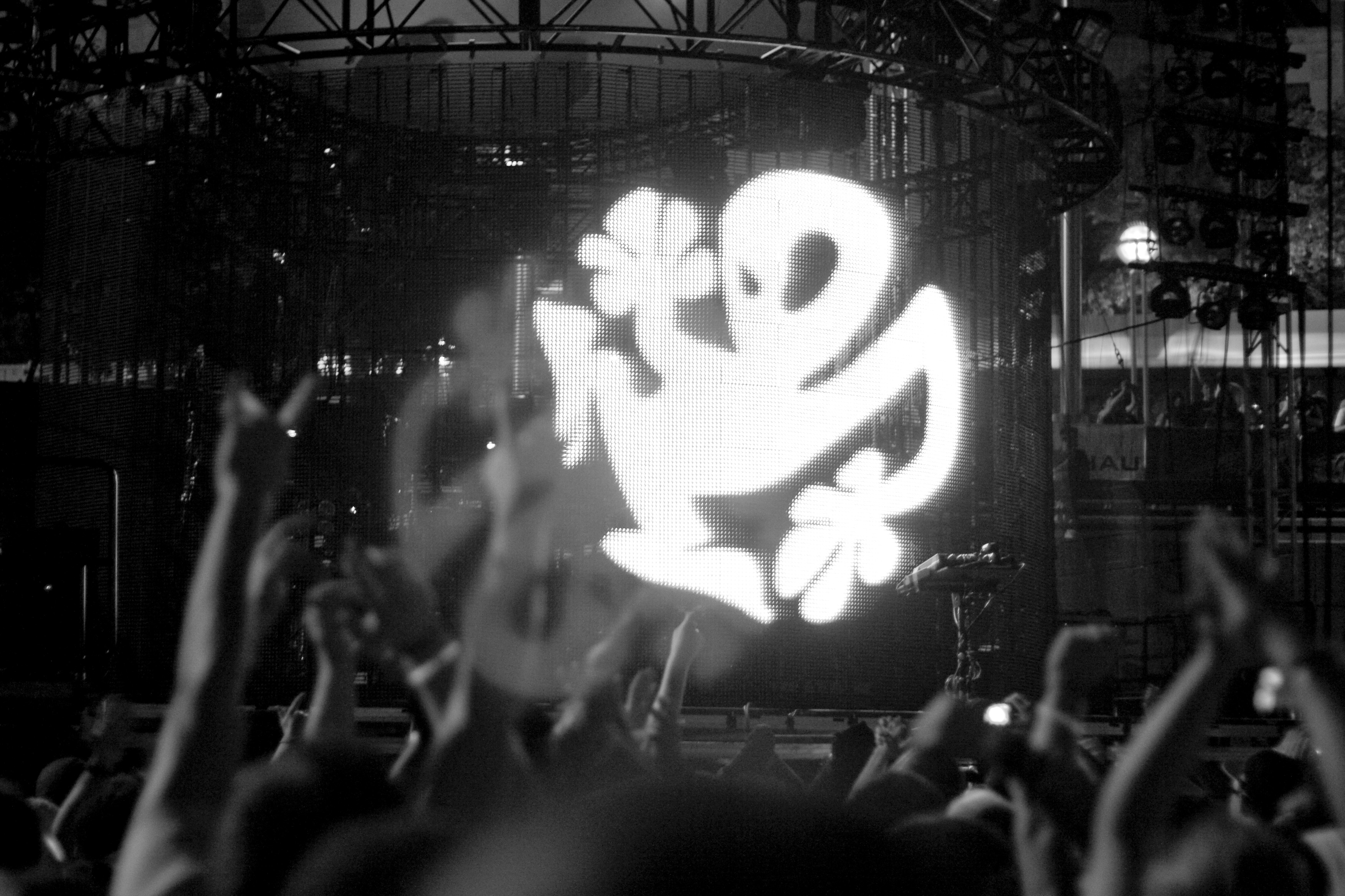 epic Plastikman return